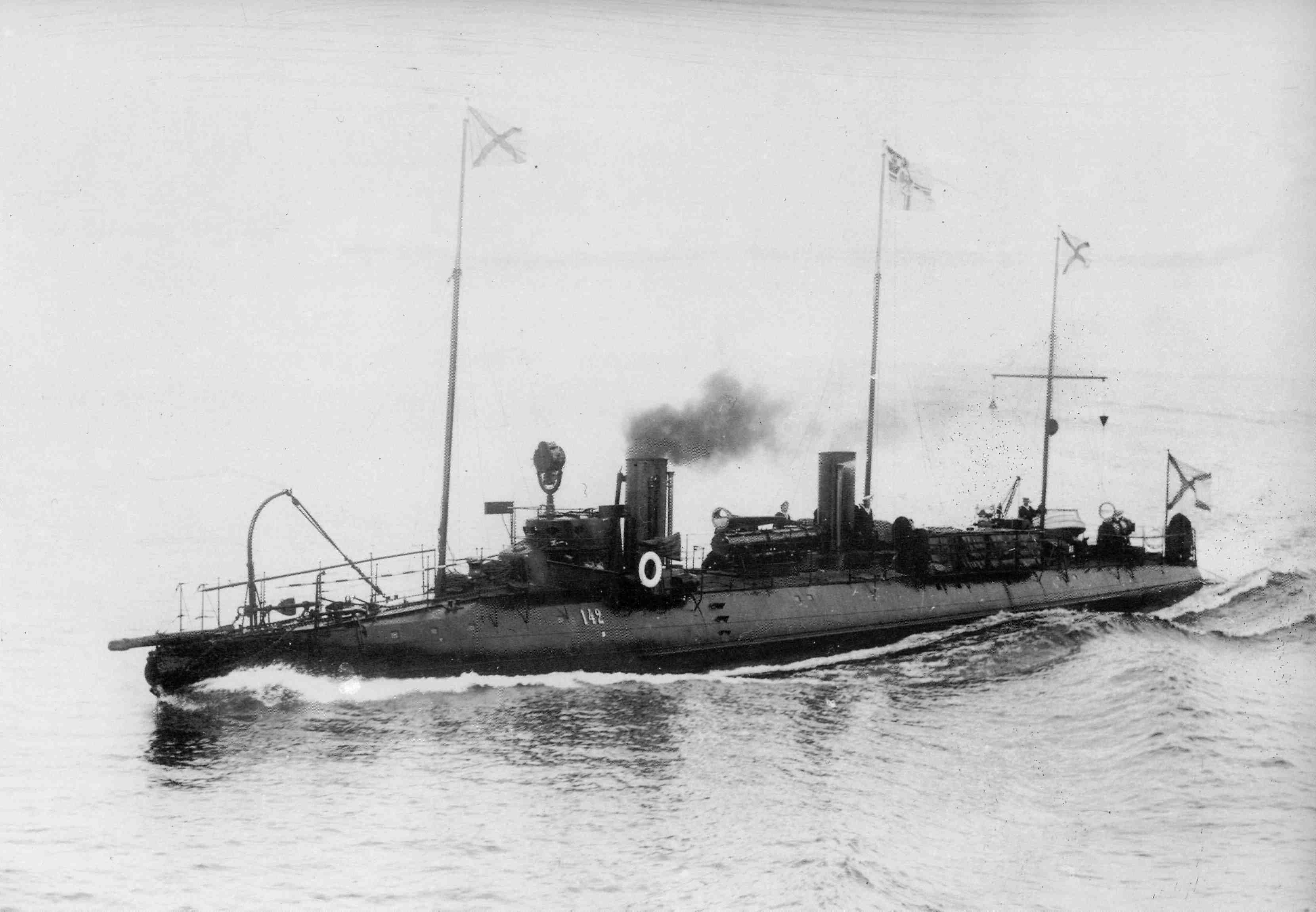 Russian Pernov-type torpedo boat No.142 (1897) at the naval parade on the occasion of summit of Emperors Nicholas II and Wilhelm II. Reval, 1902